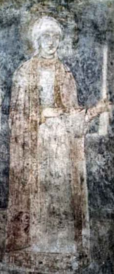 Vsevolod Yaroslavich in Saint Sophia Cathedral fresco